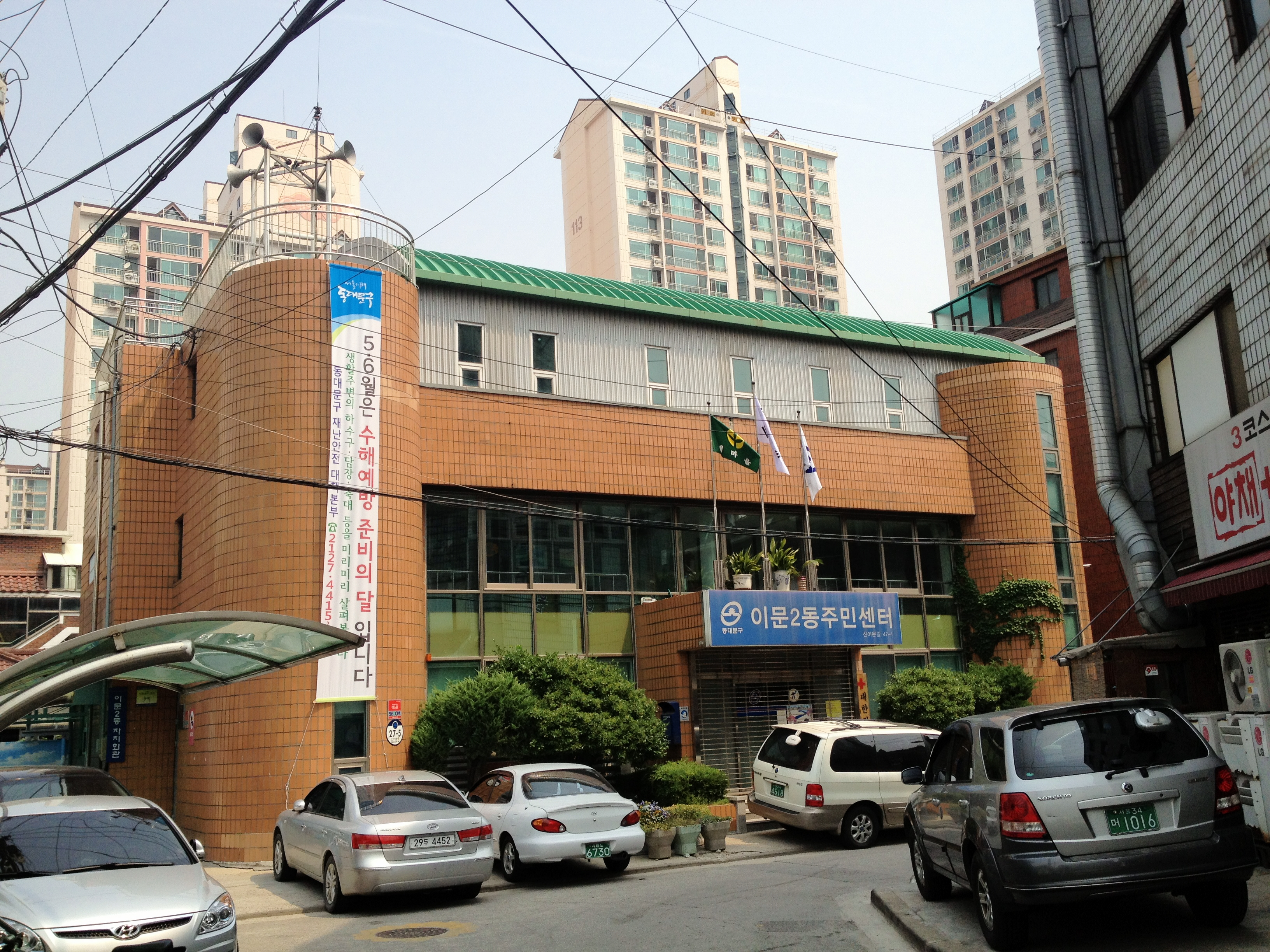 Imun 2-dong Community Service Center(Dongdaemun-gu)